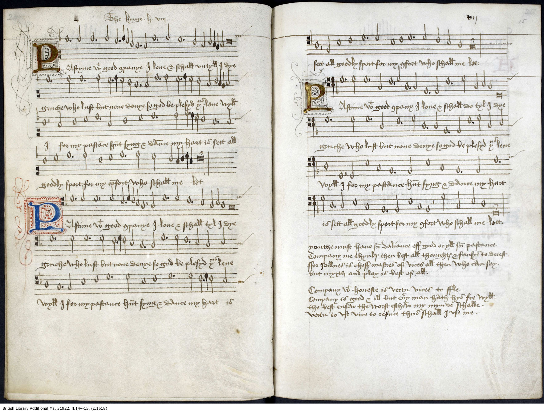 facsimile of the scores for Pastime with good company, by King Henry VIII. The British Library, London.